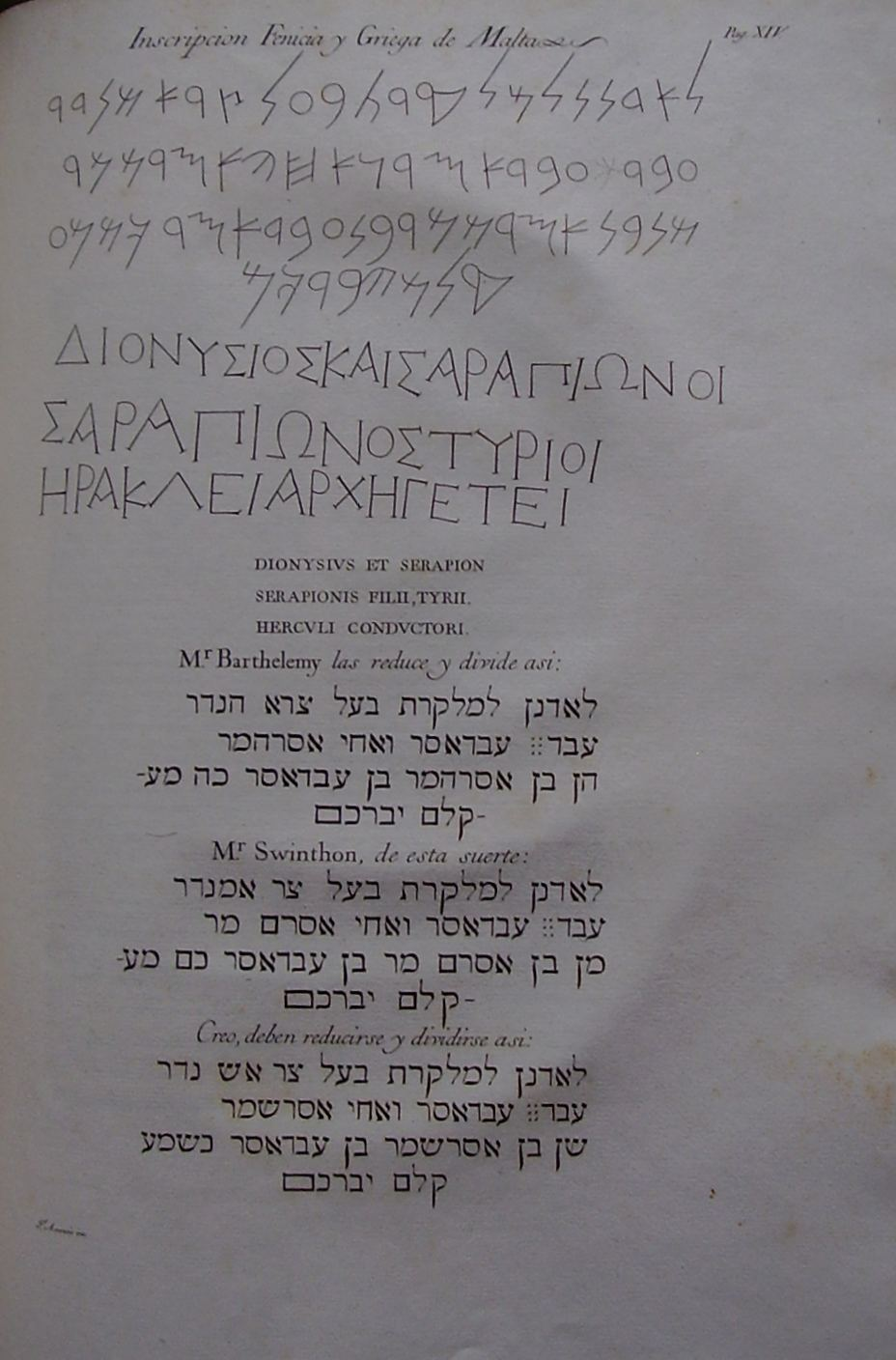 A bilingual inscription in Phoenician and Greek found in Malta. From a book printed in 1772. First correct reading by Francisco Pérez Bayer.